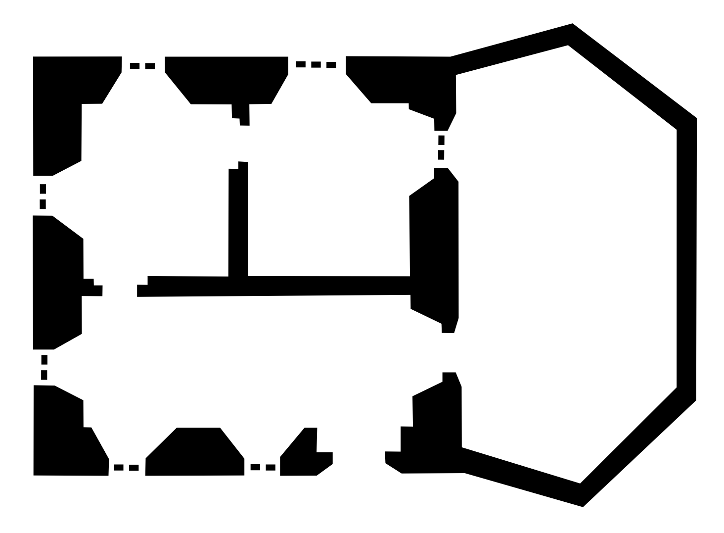 After plan on "Poole Harbour in 1597" map; see, for example NT's "Brownsea Castle", p.4